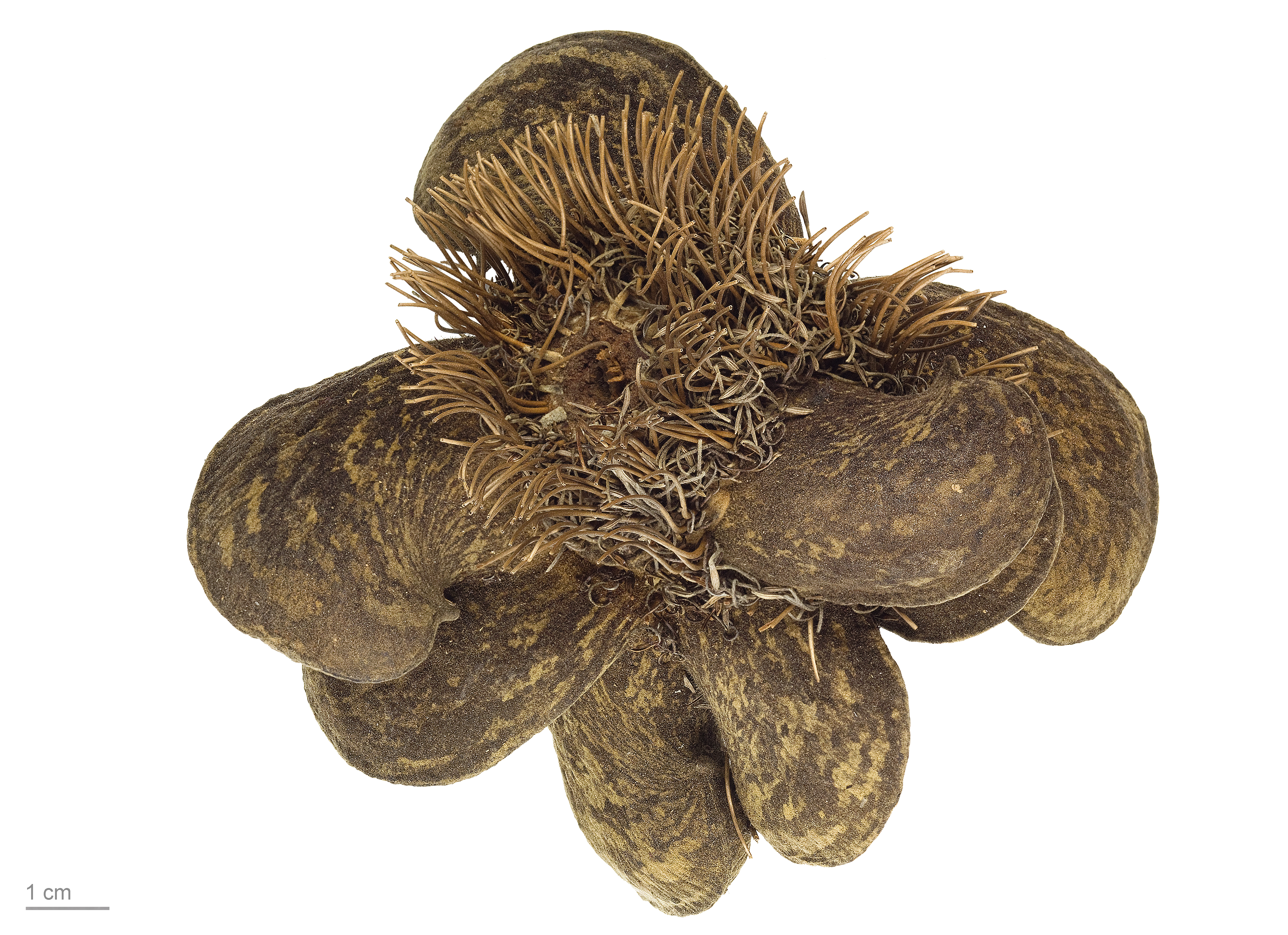 Propeller Banksia, fruits and seeds